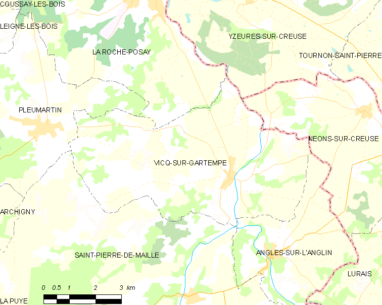 Map of French municipality Vicq-sur-Gartempe